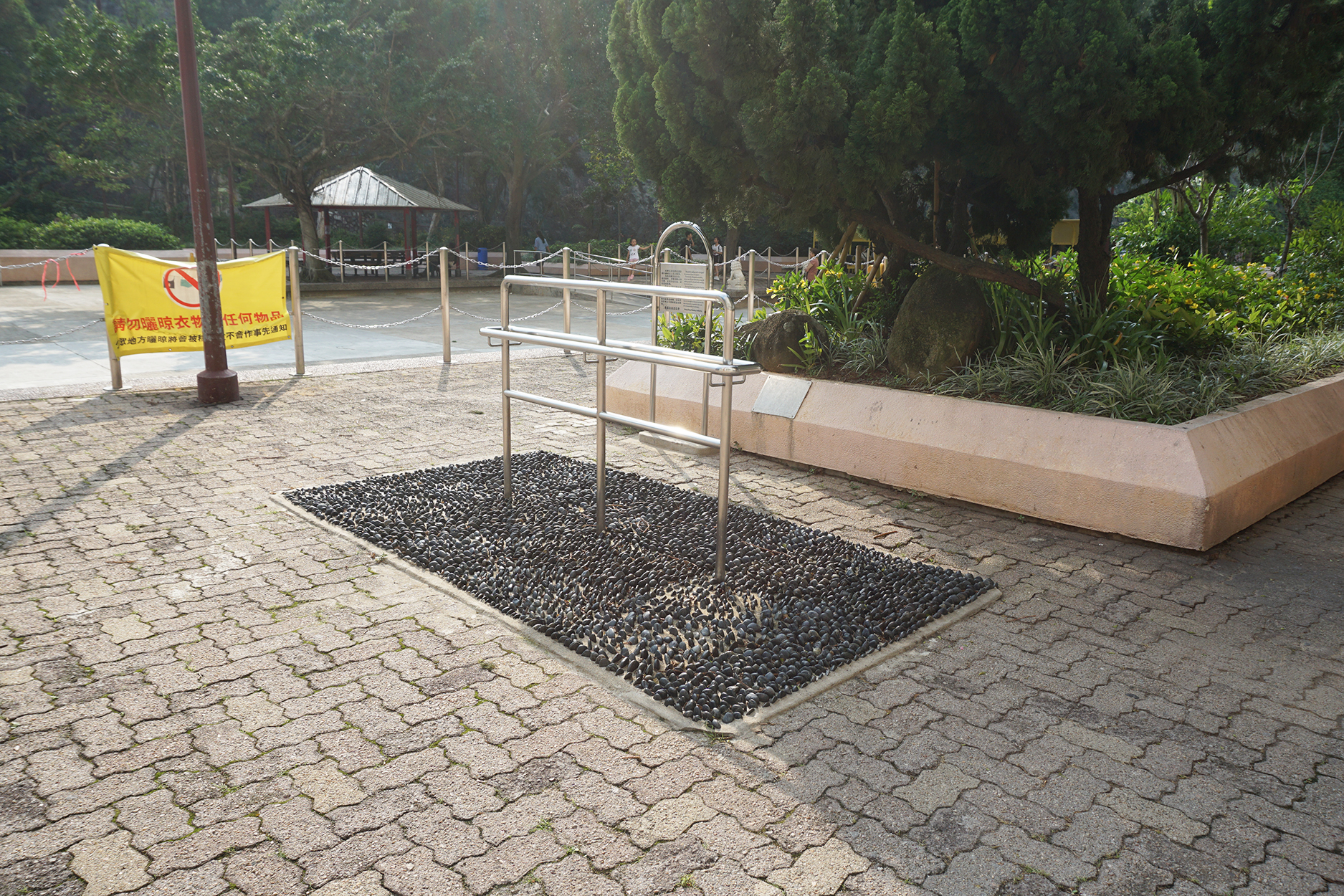 Lei Tung Estate in Ap Lei Chau, Hong Kong.